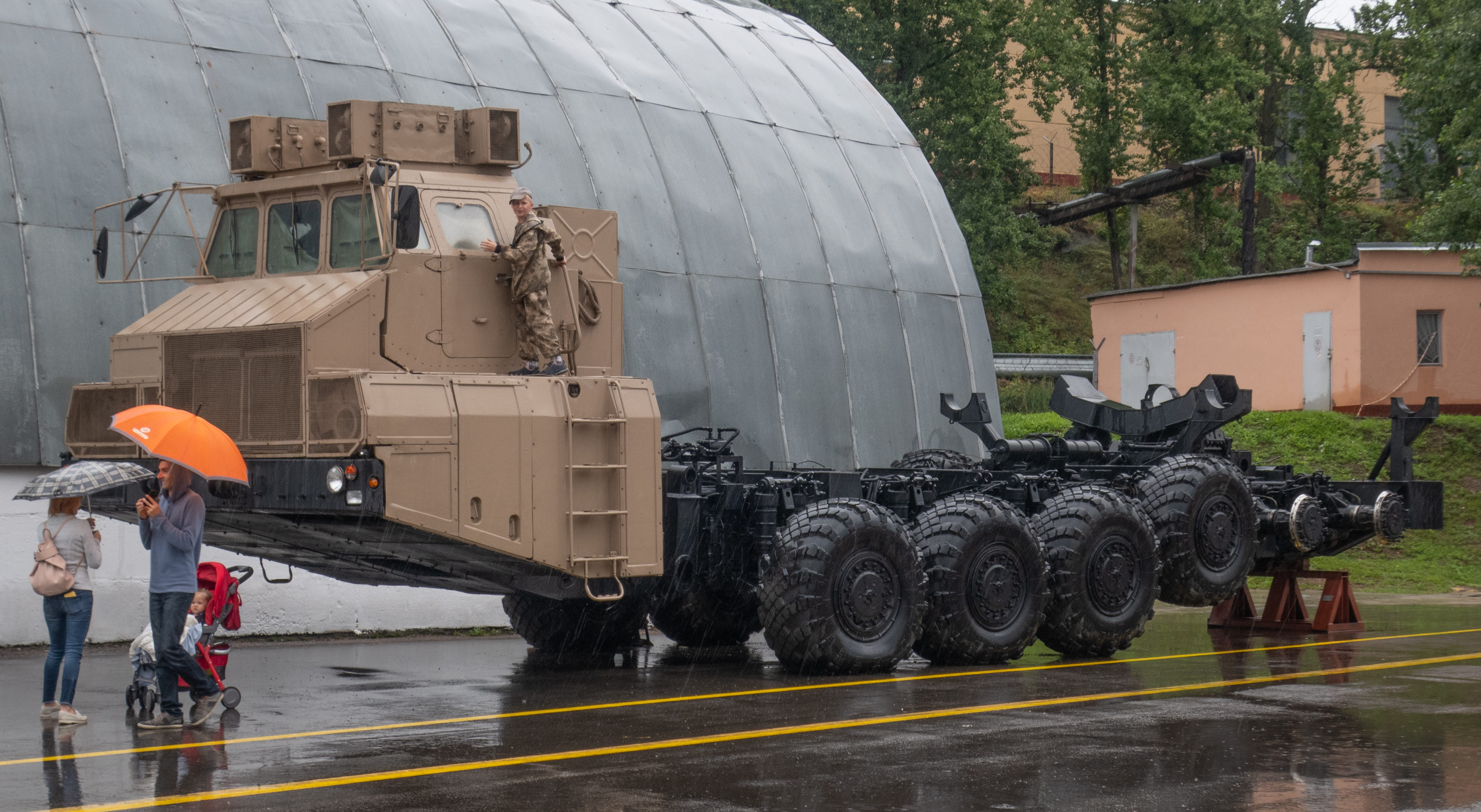 Seen at MZKT (Volat) open day 2019 (Minsk, Belarus)ю